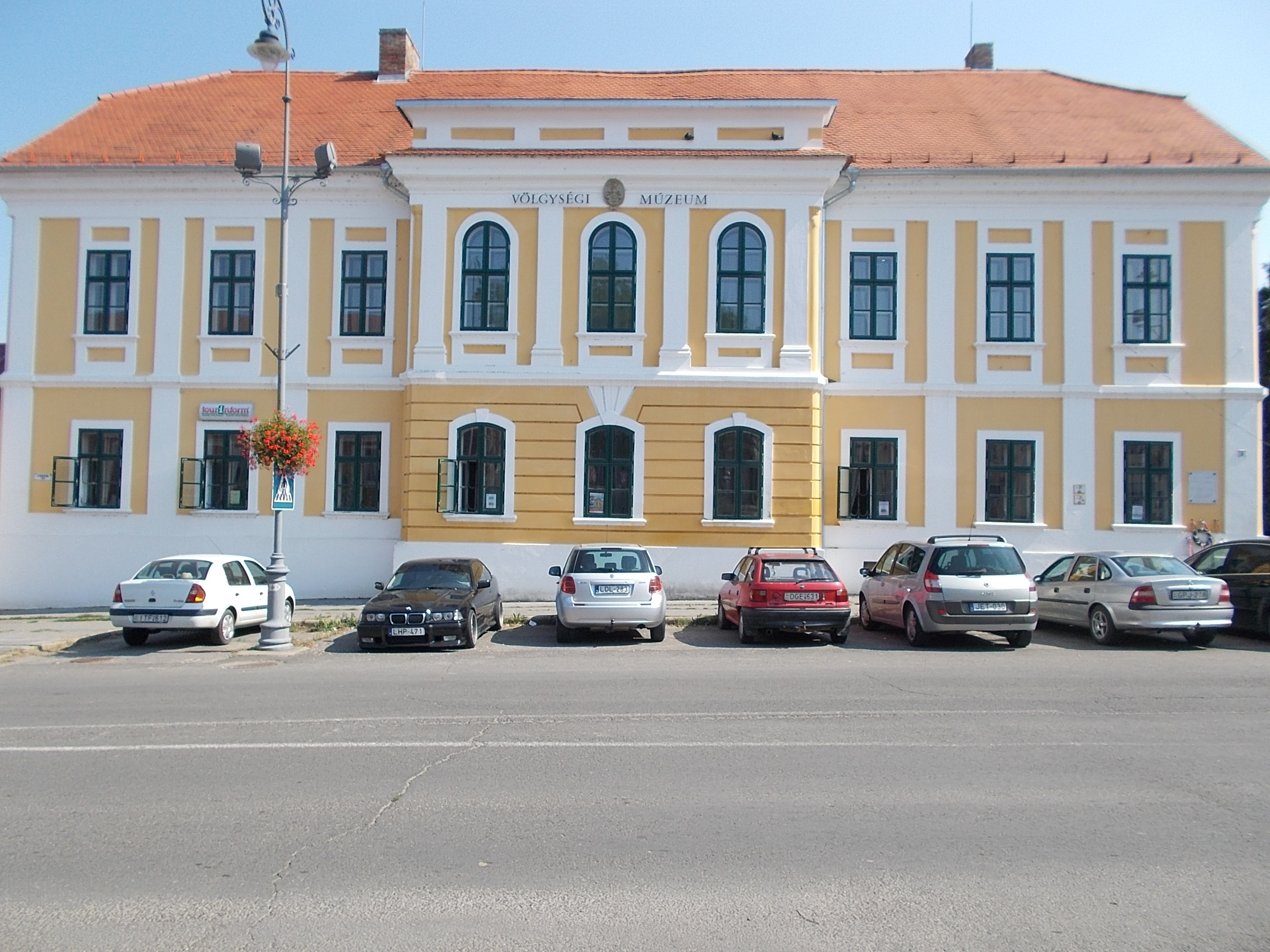 Nunkovits-Honig House now Völgység Museum, former village hall (since 1903). Historical styles facade. - Szabadság Square, Bonyhád, Tolna County, Hungary.